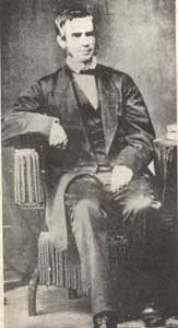 Uncropped version of Alfred Saker portrait. From .